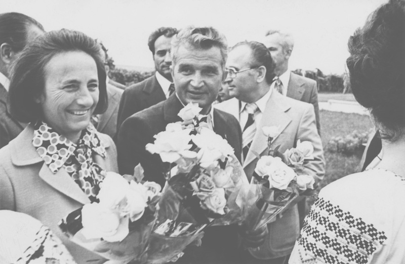 "Bread yes salt to the big visitor" (2 August 1976), at the Chișinău International Airport.